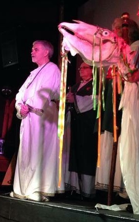 Peter Anthony Freeman speaking at the Los Angeles St. David's Day Festival